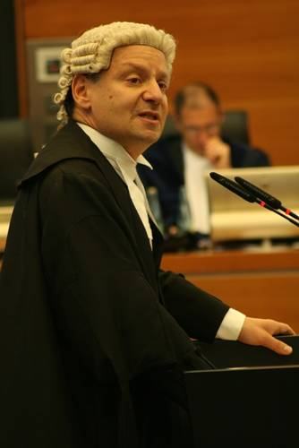 Professor Sands pleading before the International Tribunal for the Law of the Sea in Hamburg